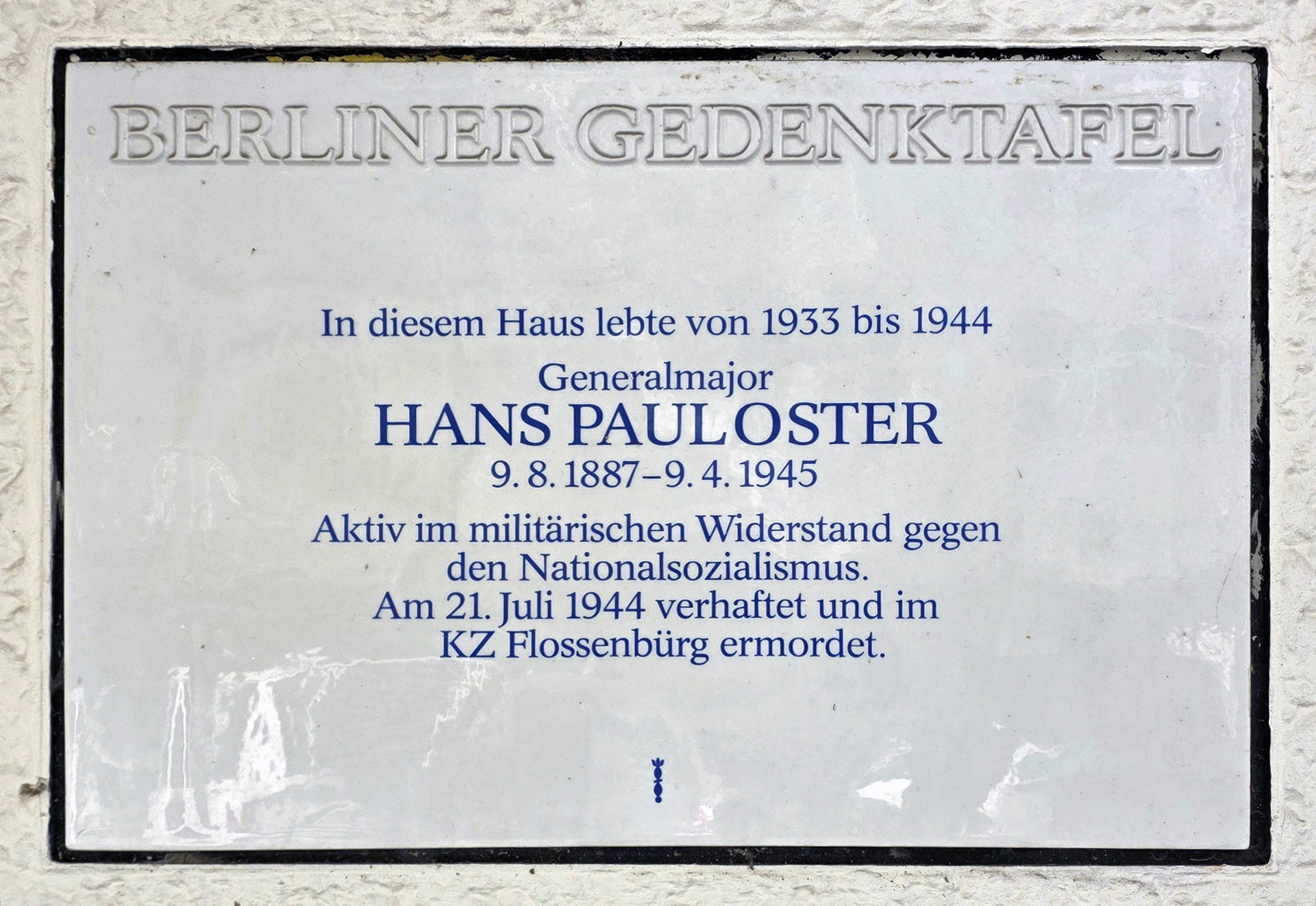 Berlin memorial plaque, Hans Paul Oster, Bayerische Straße 9, Berlin-Wilmersdorf, Germany Koordinate:52°29′48.9″N 13°18′48.8″E / 52.496917°N 13.313556°E